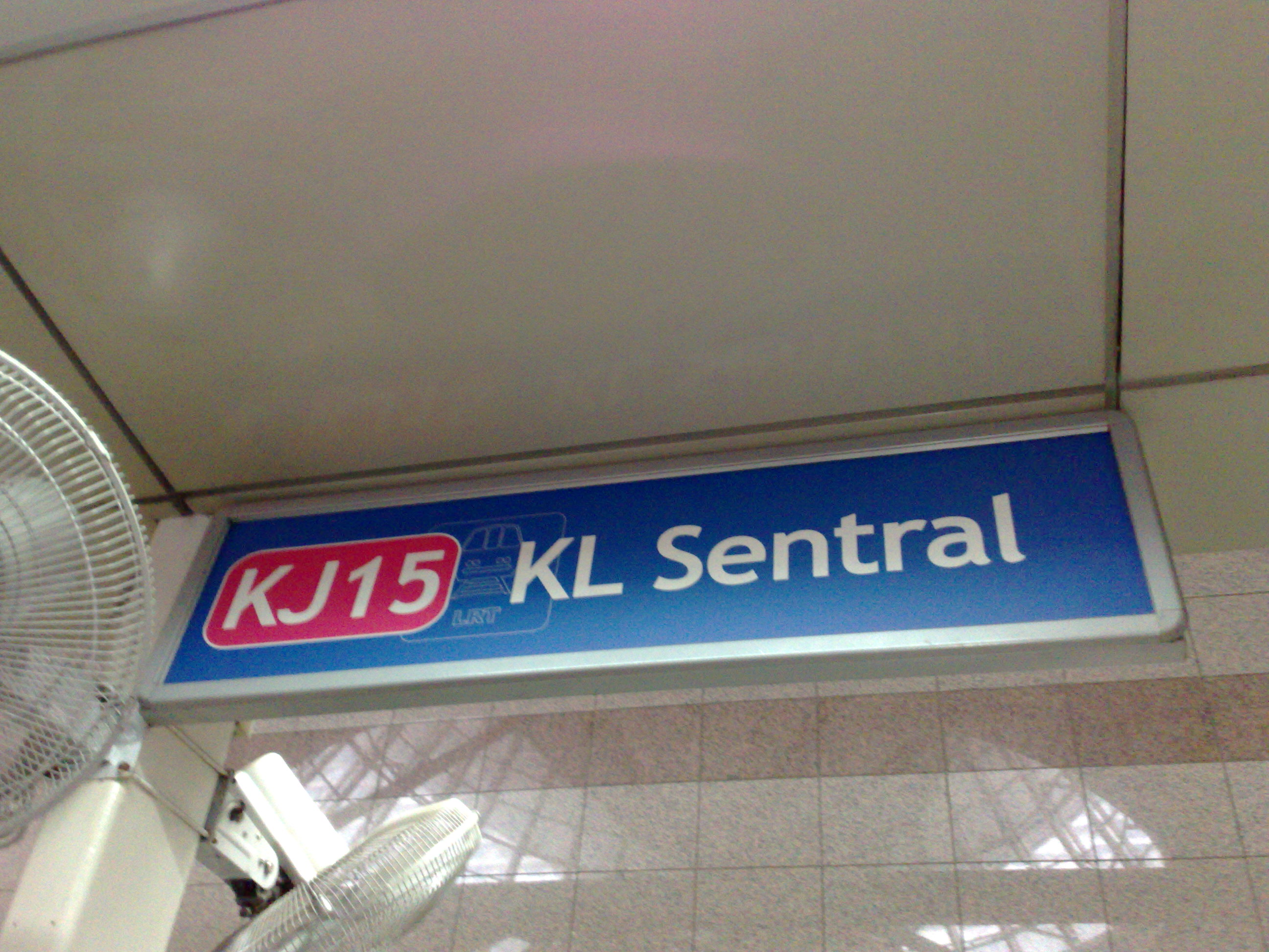 KL Sentral LRT station - 1